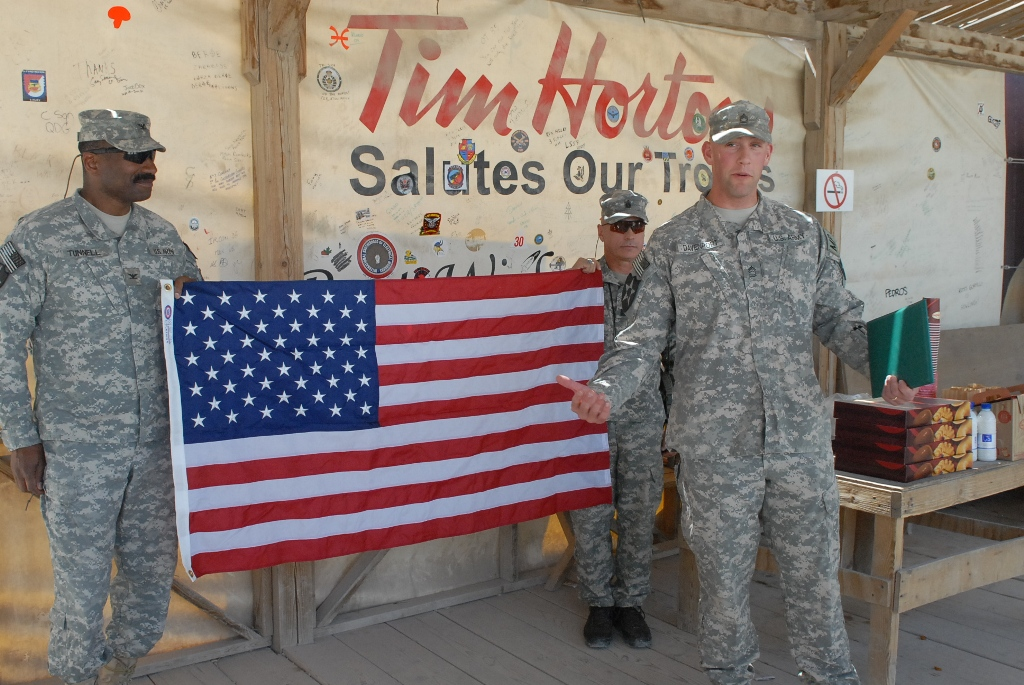 Sgt. 1st Class Corey Davenport, assigned to the Brigade Special Troops Battalion, gives a speech after taking the oath of reenlistment Apr. 5 in front of the Tim Horton's coffee shop on Kandahar Airfield, Afghanistan. Davenport supplied coffee and donuts for attendees. "What sort of cop would I be if I didn't have coffee and donuts?" he said after the ceremony. (U.S. Army Photo by Spc. Nathan Booth)